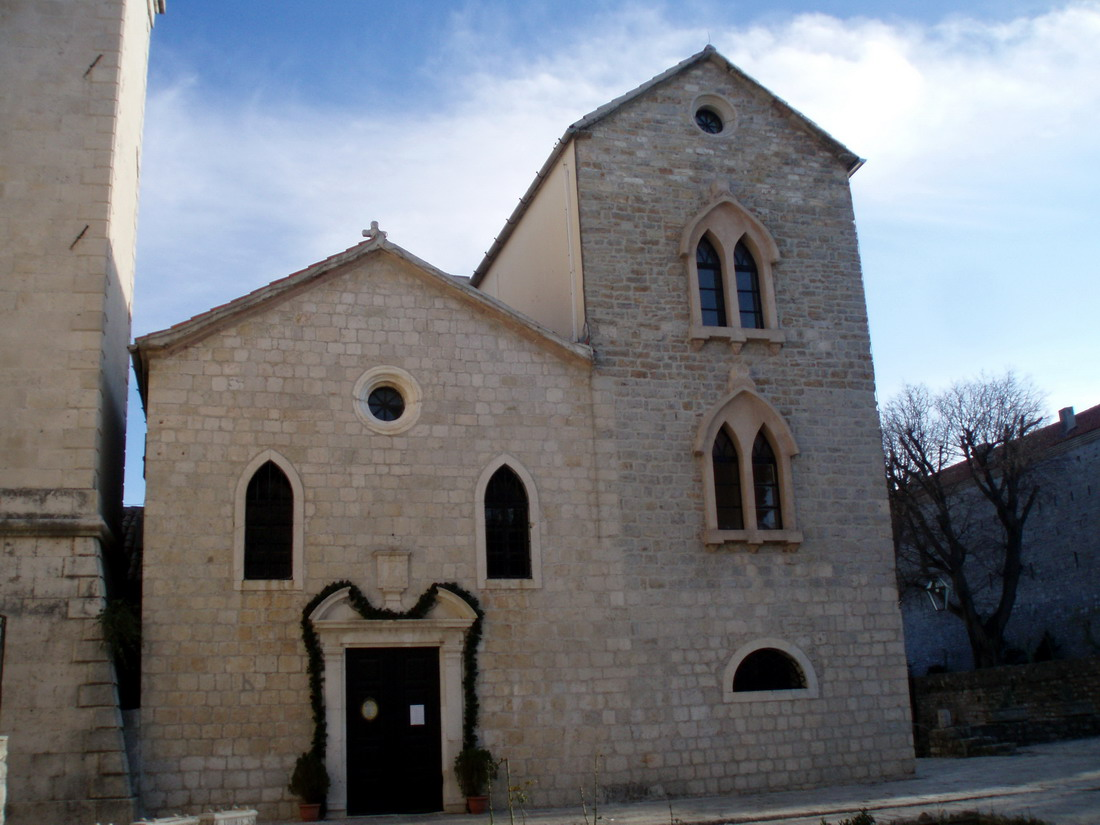 Church of St. Ivan (Budva)